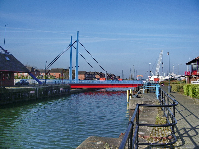 Swingbridge, Preston Docks